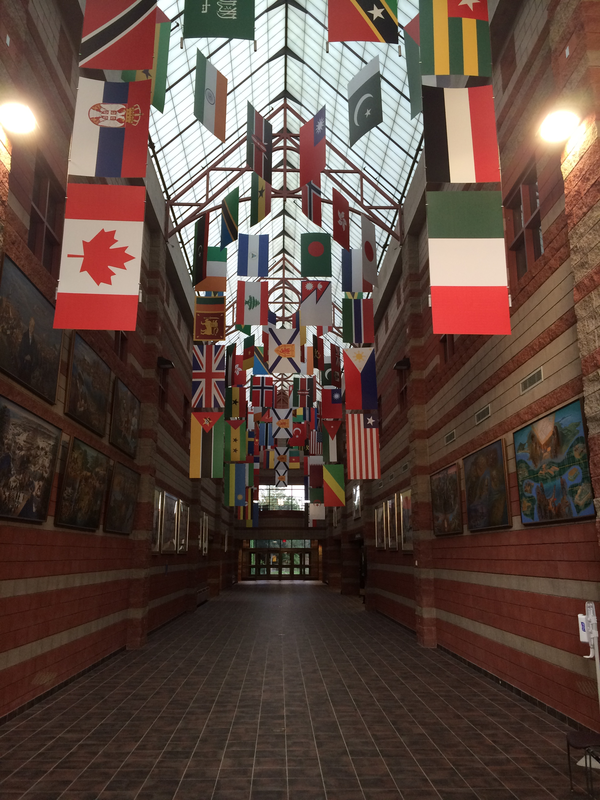 The Great Hall. Again, again.